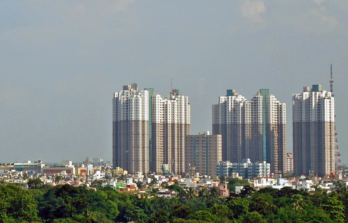 View of South City Towers from the Distant Lakes